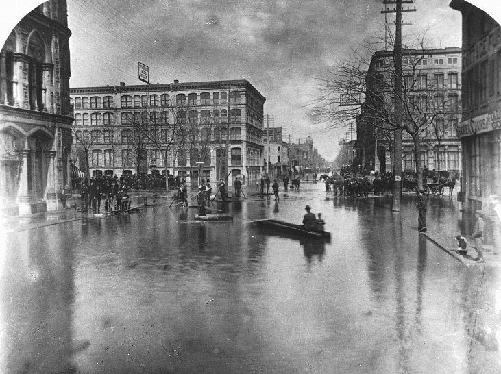 Photograph, Flood at Victoria Square, Montreal, about 1886, George Charles Arless, Silver salts on paper mounted on card - Albumen process - 18 x 21 cm